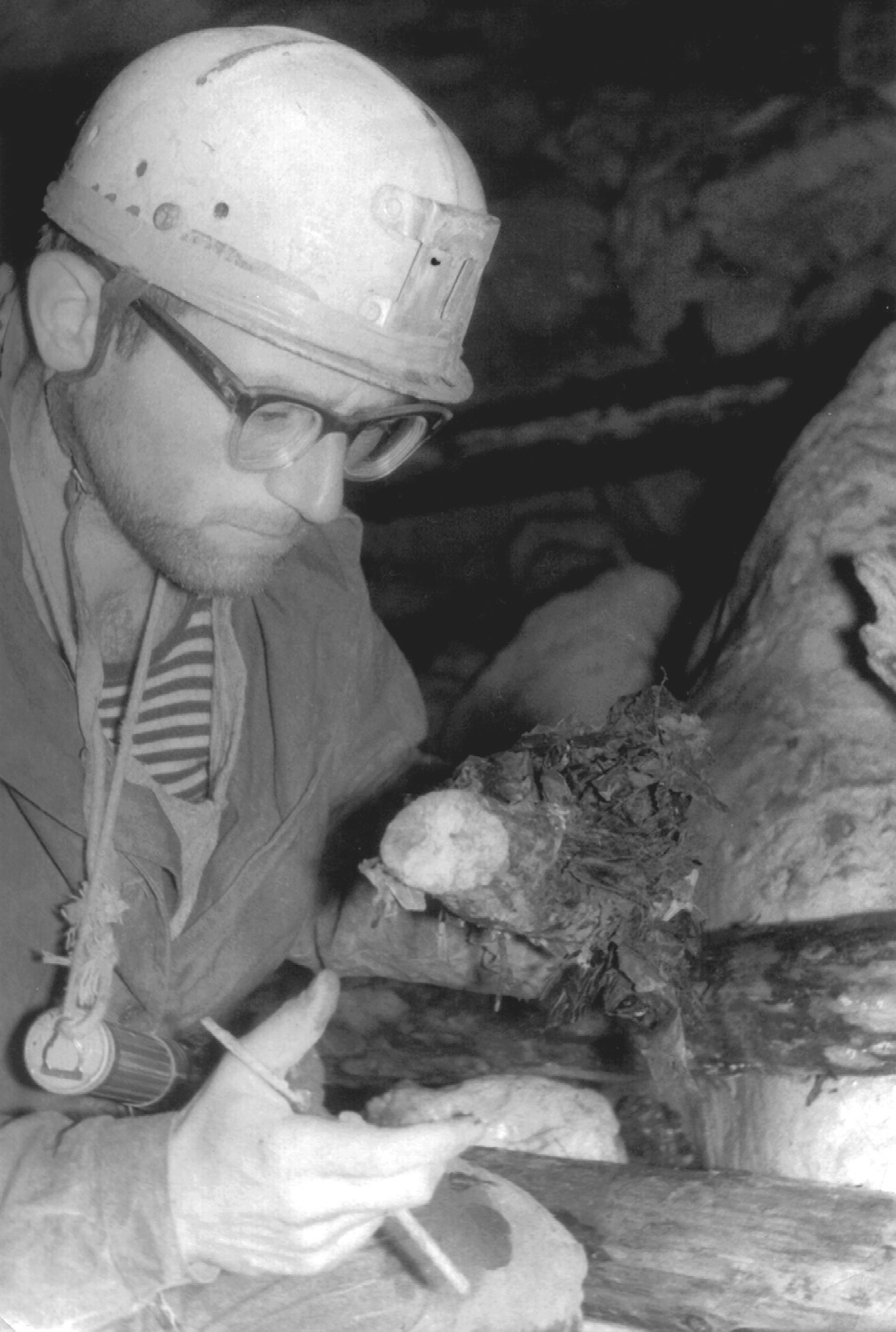 Christo Deltshev, at Vorontsovskaya Cave, Abkhazia, July, 1967